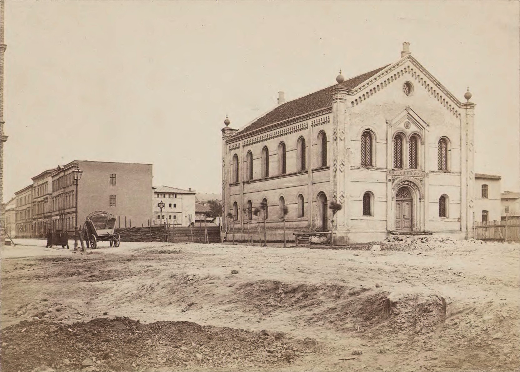 The Old Synagogue of Katowice from 1862 at the Grundmannstraße (today ul. 3. Maja)